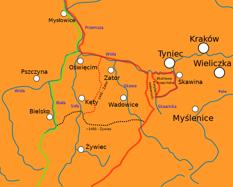 Border changes of the duchy of Oświęcim/Auschwitz' red: Polish/Czech state border after 1327; green: new state border after the purchase of Oświęcim (1457) and Zator (1494); red dots: the border between Zator and Oświęcim since 1445; black dots: around 1450 Oświęcim lost control of Żywiec; Background from File:Działania podczas wojny polsko niemieckiej 1002-1005-es.svg; Internal borders from File:Księstwo oświęcimskie.png